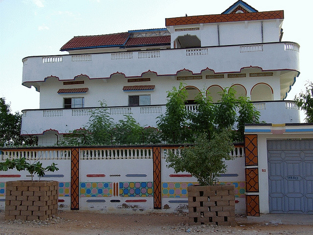 A private residence in Galkacyo, Puntland, Somalia.